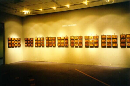 "Totem Triptychs: Each, oil painted, triptych has three 6" x 8" panels. The layout concept for these triptychs spawned from the children's card game that playfully matches animal parts resulting in hybrid animals.